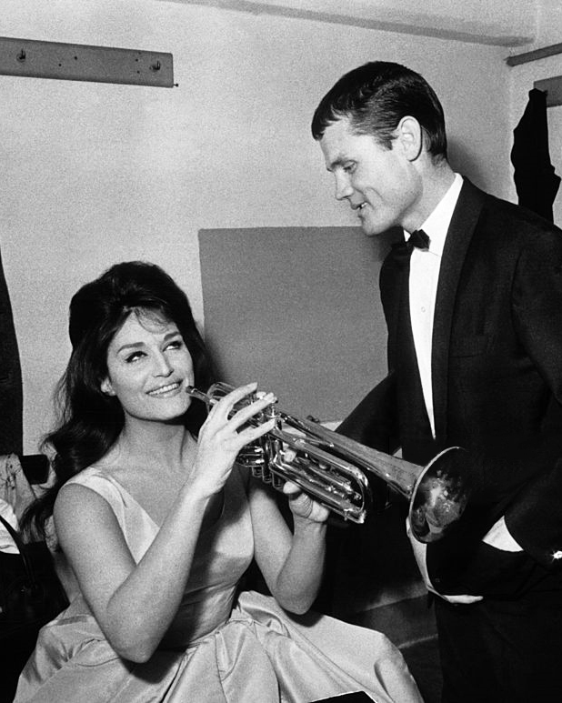 Dalida with Chat Baker in Italy